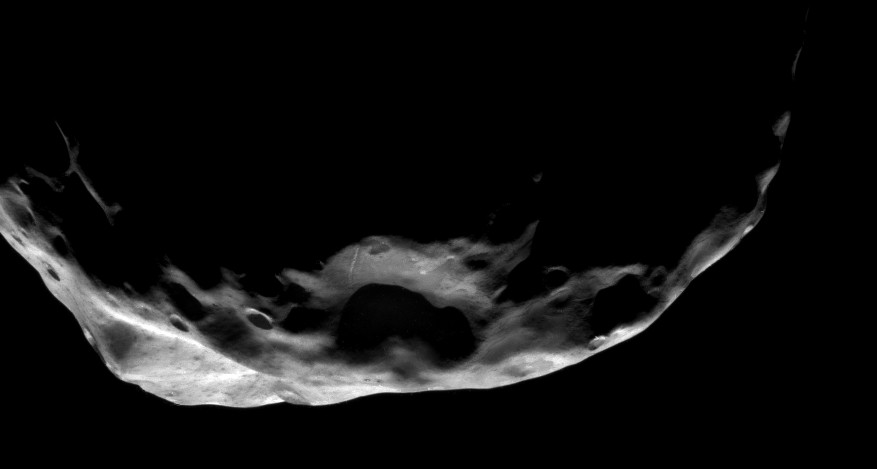 This shadowy scene is one of Cassini's closest views of Saturn's moon Janus. The slopes of some craters here display hints of the darker material better seen on Epimetheus in PIA09813. A bright linear feature runs up the wall of the large crater at bottom center. The view looks toward southern latitudes on Janus (179 kilometers, 111 miles across). North is up and rotated 58 degrees to the right. The image was taken in visible light with the Cassini spacecraft narrow-angle camera on June 30, 2008. The view was obtained at a distance of approximately 33,000 kilometers (21,000 miles) from Janus and at a Sun-Janus-spacecraft, or phase, angle of 120 degrees. Image scale is 200 meters (656 feet) per pixel. The Cassini Equinox Mission is a joint United States and European endeavor. The Jet Propulsion Laboratory, a division of the California Institute of Technology in Pasadena, manages the mission for NASA's Science Mission Directorate, Washington, D.C. The Cassini orbiter was designed, developed and assembled at JPL. The imaging team consists of scientists from the US, England, France, and Germany. The imaging operations center and team lead (Dr. C. Porco) are based at the Space Science Institute in Boulder, Colo. For more information about the Cassini Equinox Mission visit and